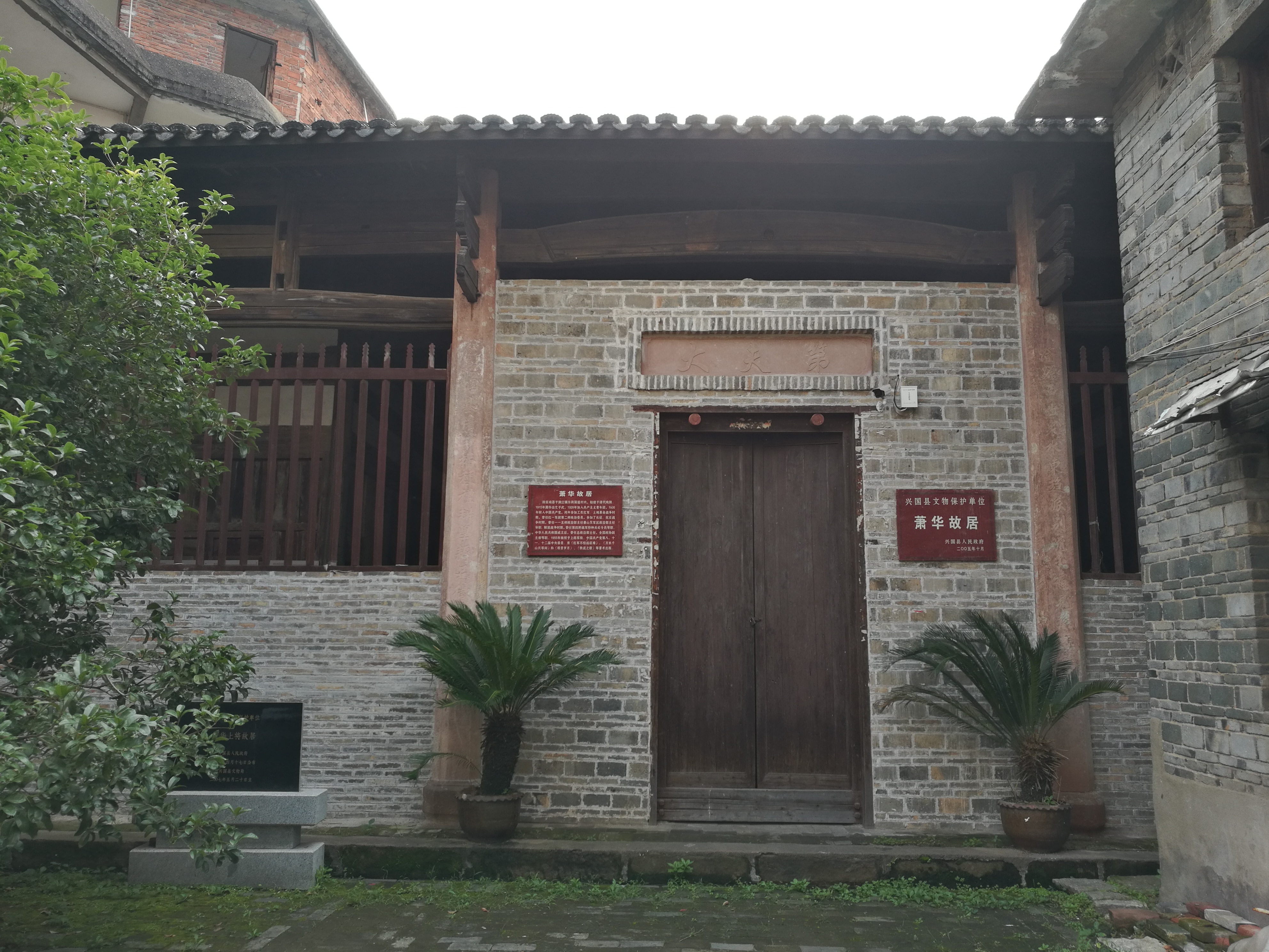 Former residence of Xiao Hua.